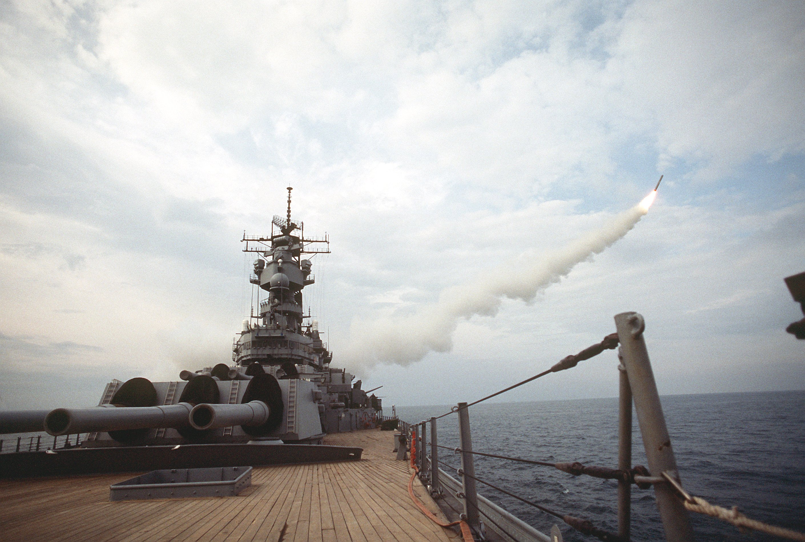 Released to Public ID: DN-ST-91-09302 Service Depicted: Navy Operation / Series: DESERT STORM A BGM-109 Tomahawk land-attack missile (TLAM) is fired toward an Iraqi target from the battleship USS MISSOURI (BB-63) at the start of Operation Desert Storm.